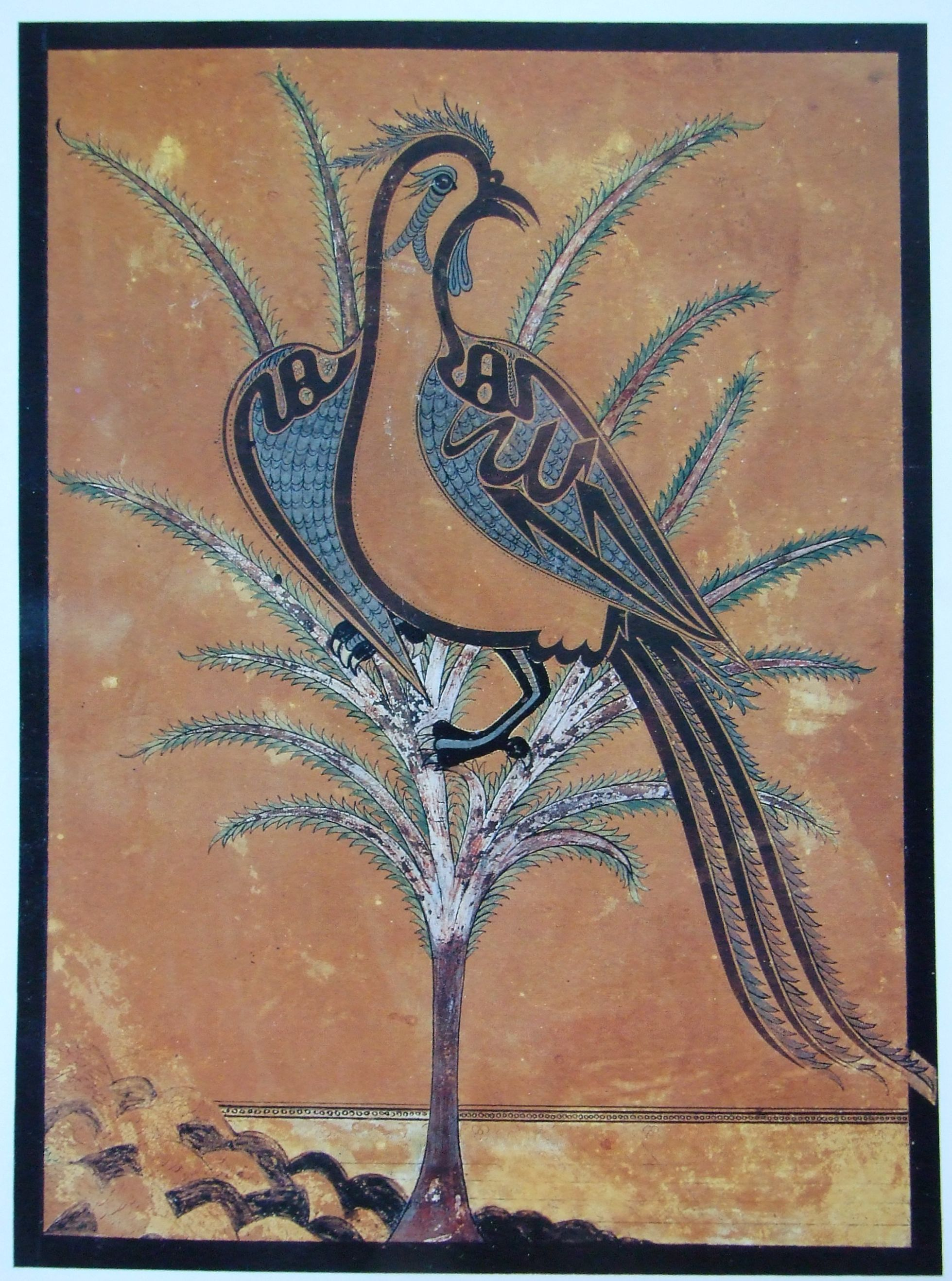 Calligraphy by Mishkín-Qalam (1826-1912)